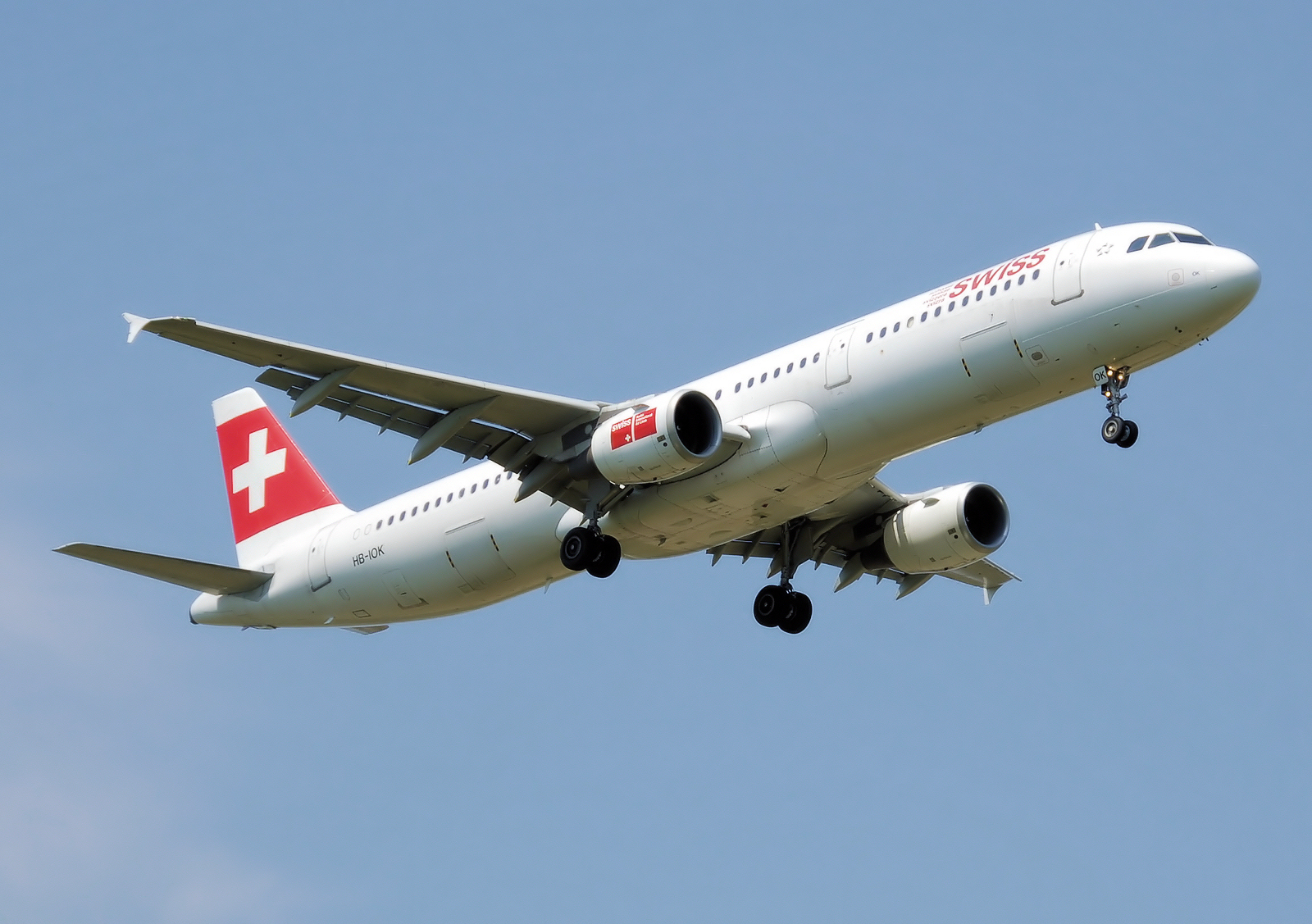 Swiss Airbus A321-100 (HB-IOK) lands at London Heathrow Airport, England.